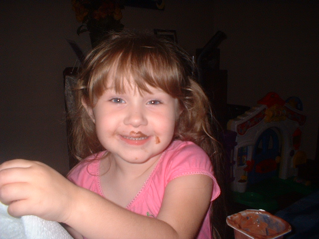 Little girl with chocolate pudding on face and empty pudding container to side.